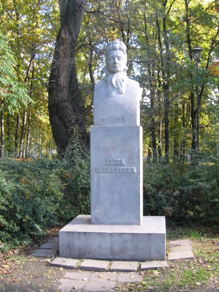 Eliza Orzeszkowa (Orzeszko) monument, sculpture by Romuald Zerych, 'Na Ksiazecem' Park, Warsaw, Poland.